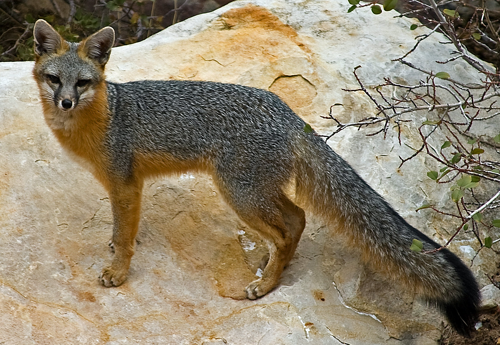 Edited version of File:Gray Fox - Red Rock Canyon, Nevada.jpg. Original description: I think this is a gray fox, he came upon me as I was hiking in a small canyon looking for a seasonal waterfall. To view this photo larger or view purchase information click here.